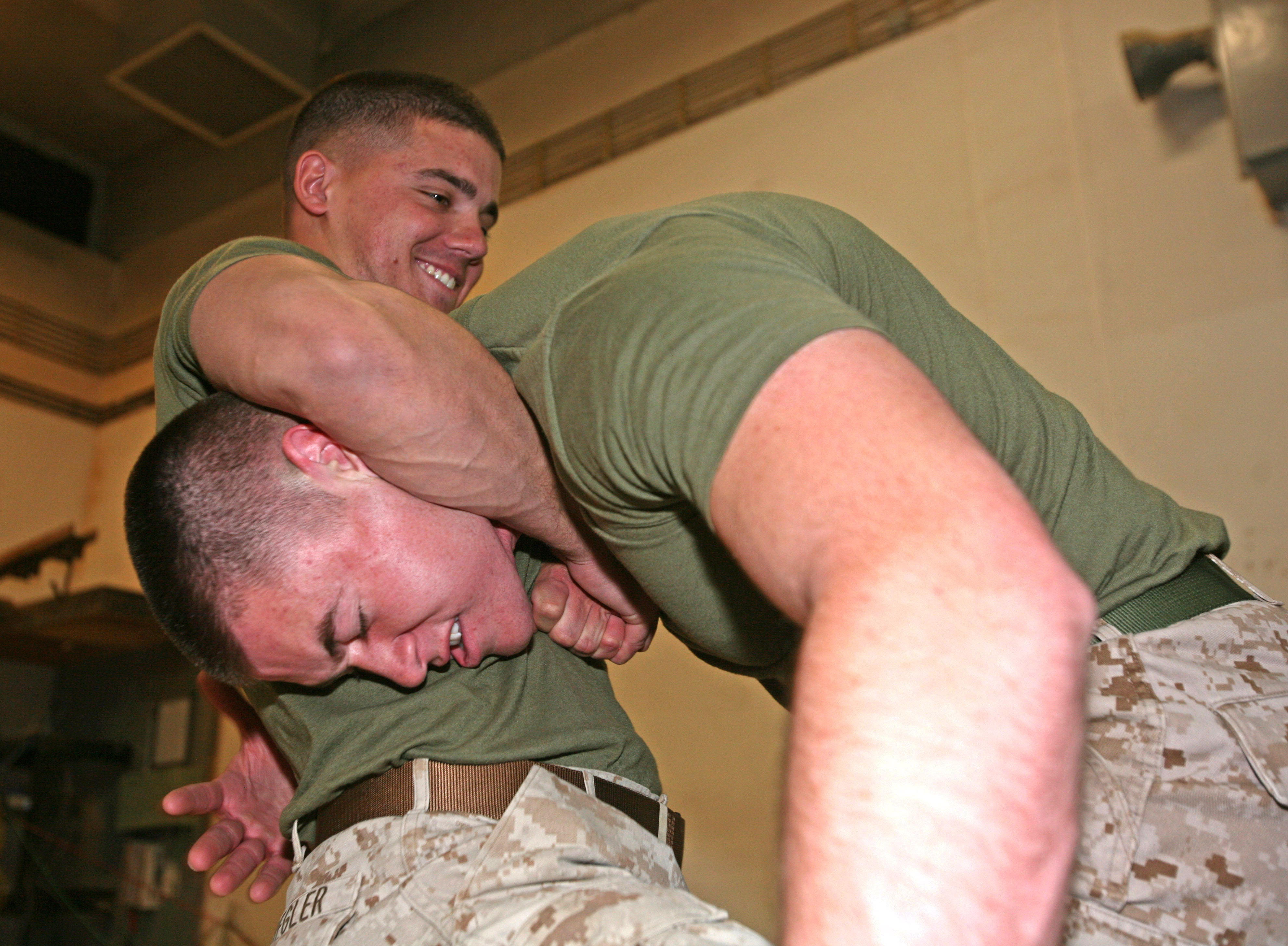 Sgt. Bryce Ziegler executes a choke hold on Lance Cpl. Timothy Goff, both combat engineers with Combat Logistics Battalion 46, during Marine Corps Martial Arts Program training aboard Al Asad Air Base, Iraq, Dec. 29, 2009. Goff spends much of his time in the gym with Ziegler and his brother, Sgt. Jeffrey Goff, also a combat engineer with CLB-46.